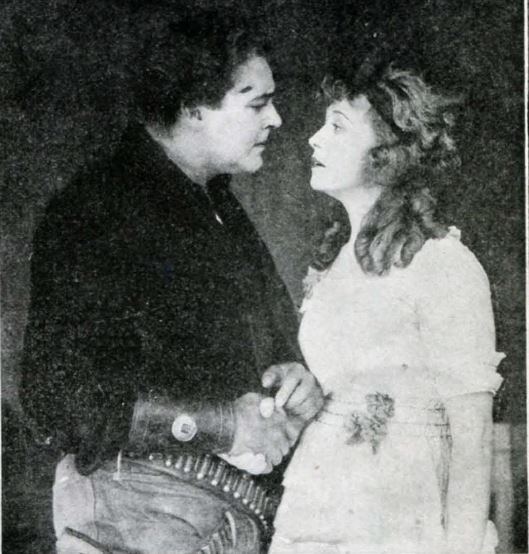 Still with William Farnum and Jackie Saunders in the American western film Drag Harlan (1920), published on page 65 of the January 1921 Photoplay magazine.